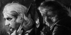 Details from works by Joseph Wright and Thomas Frye